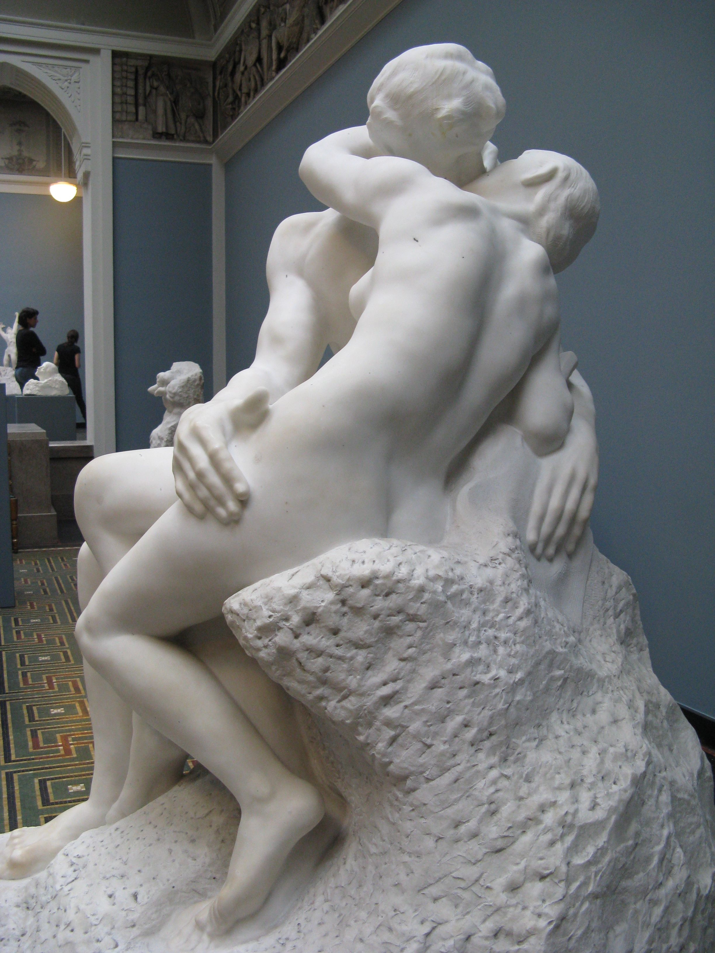 The Kiss by Auguste Rodin at Ny Carlsberg Glyptotek in Copenhagen.